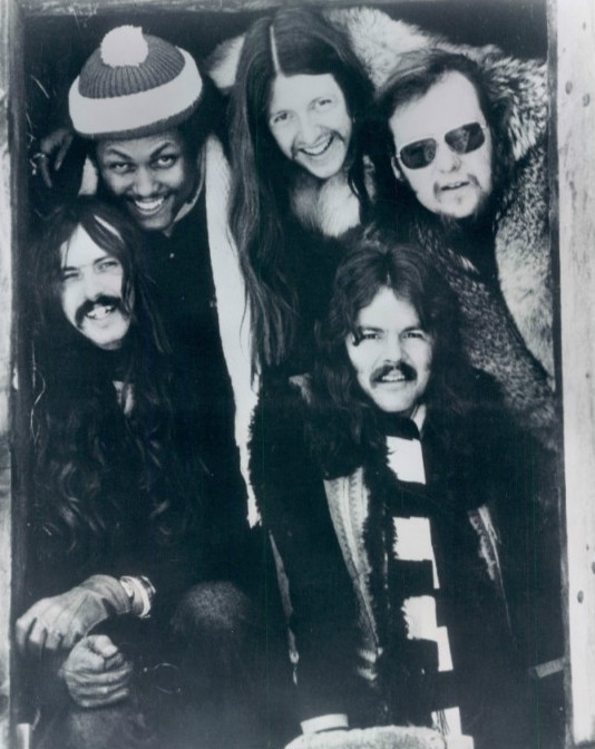 Publicity photo of The Doobie Brothers.